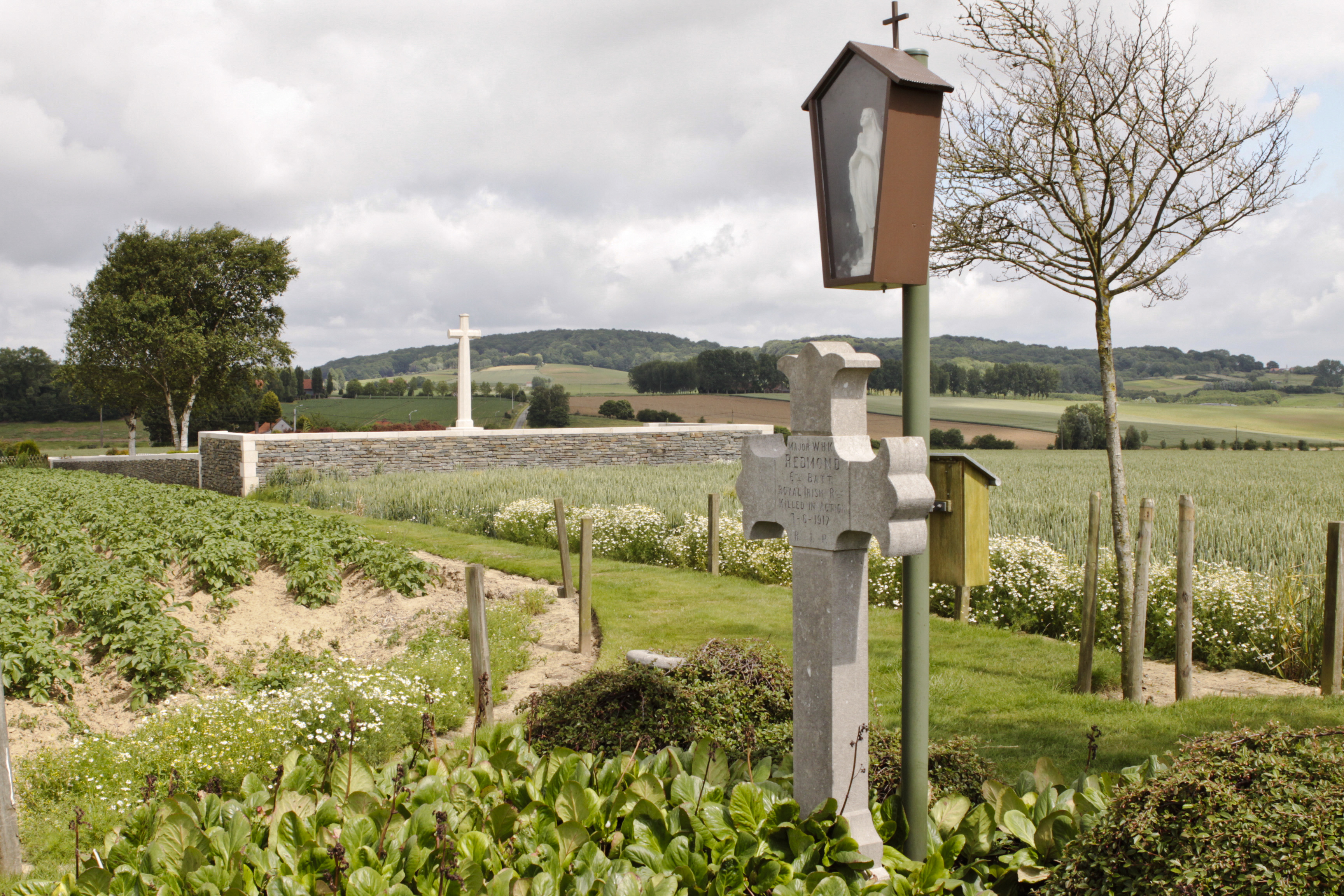 Grave of Major Willie Redmond.